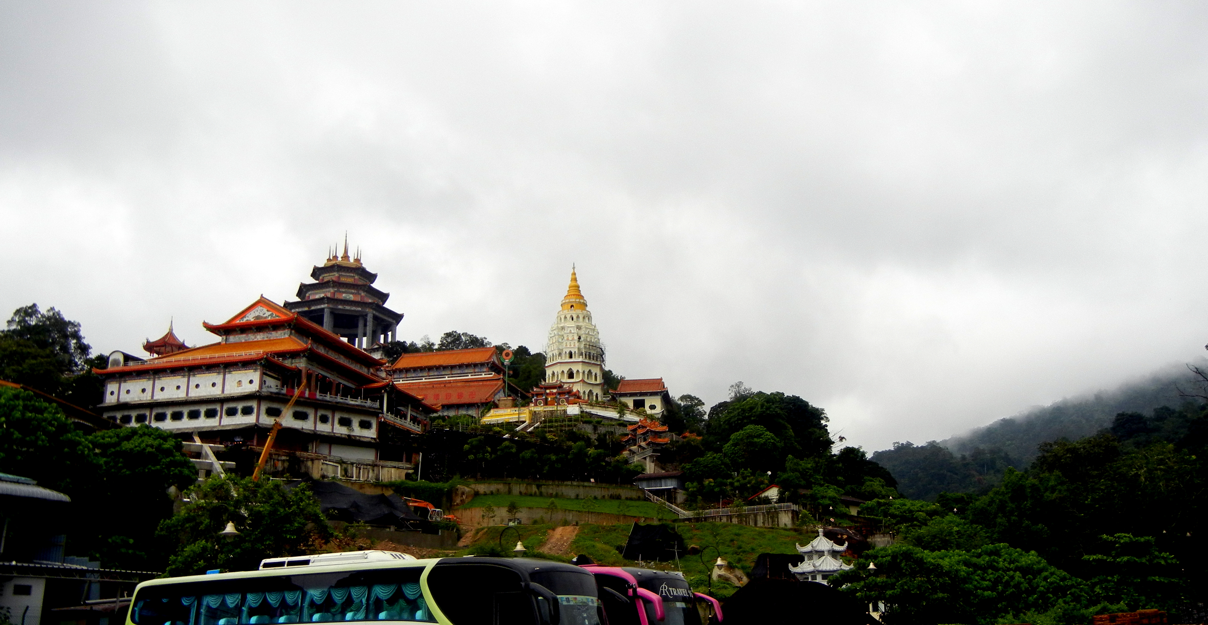 Kek Lok Si Temple